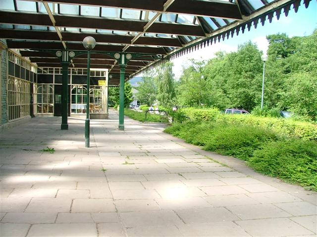 Former Keswick Railway Station. Now owned by an hotel and well maintained but sadly underused. Situated alongside the Keswick Railway Cyclepath it really has potential.